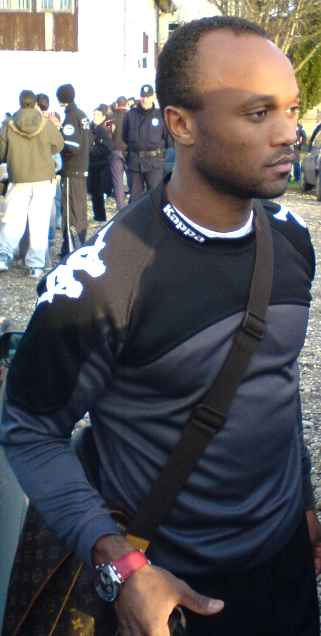 Almami Moreira after a match with FK Borac Čačak.